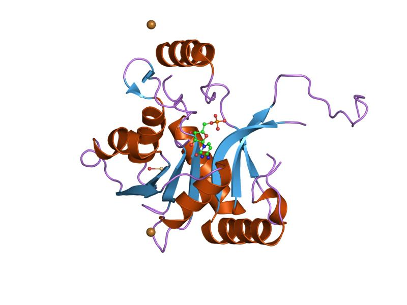 Cartoon representation of the molecular structure of protein registered with 1w77 code.